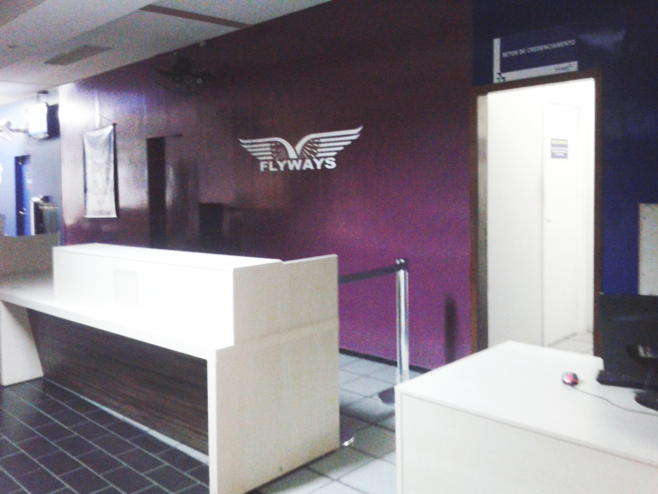 Ticket window of the FlyWays Linhas Aéreas in the Ipatinga Airport (Vale do Aço Regional Airport), in Santana do Paraíso, Minas Gerais, Brazil.